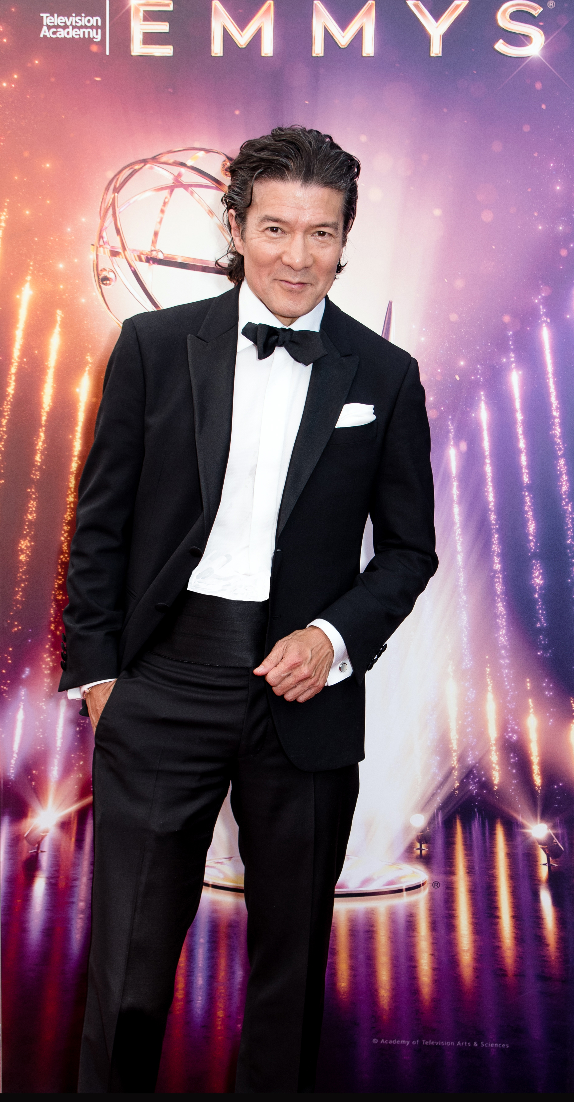 Tohoru Masamune at the 2019 Emmy Awards for ARTIFICIAL win